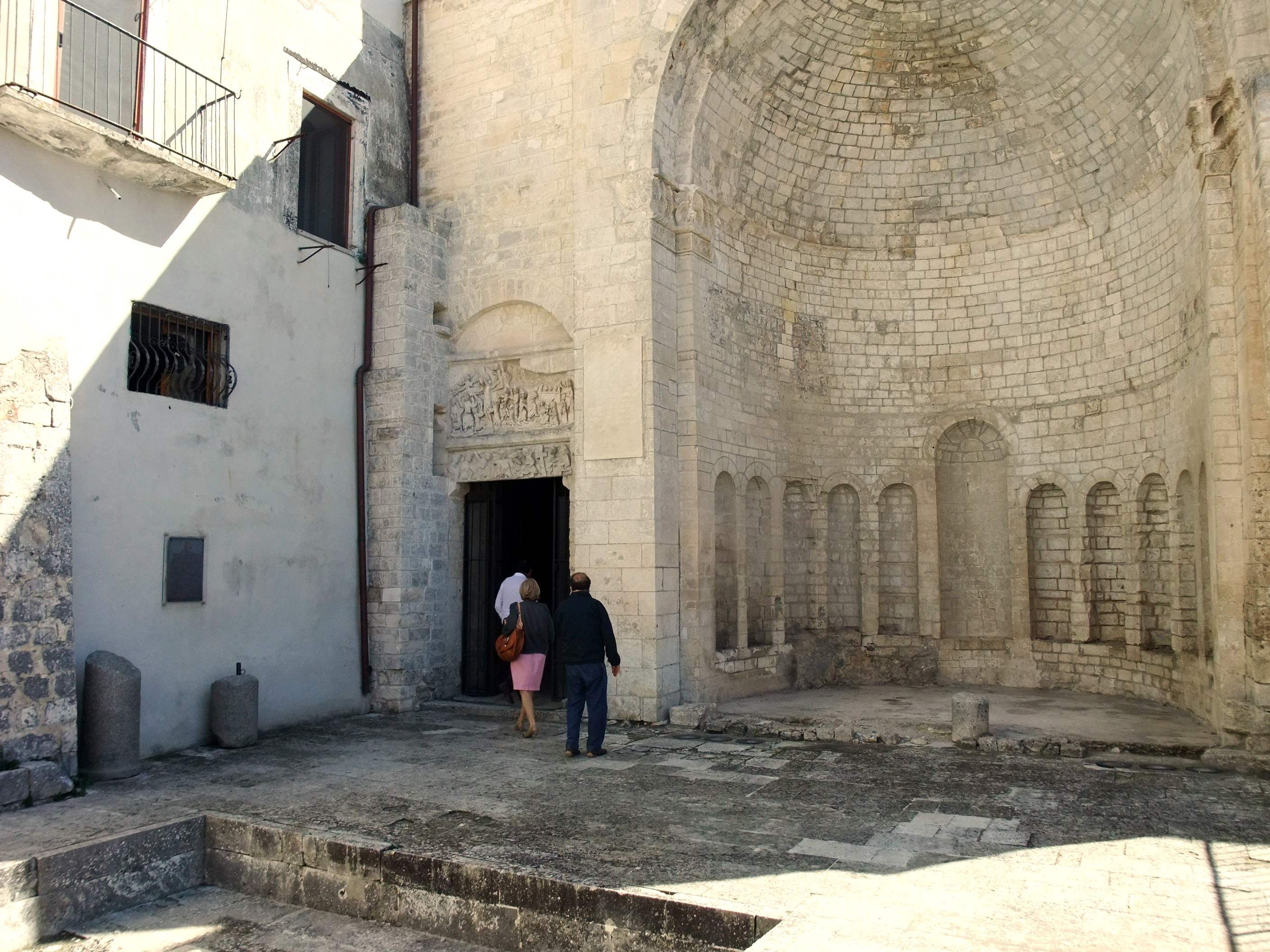 Tomba di Rotari in Monte Sant'Angelo in Apulia, southern Italy